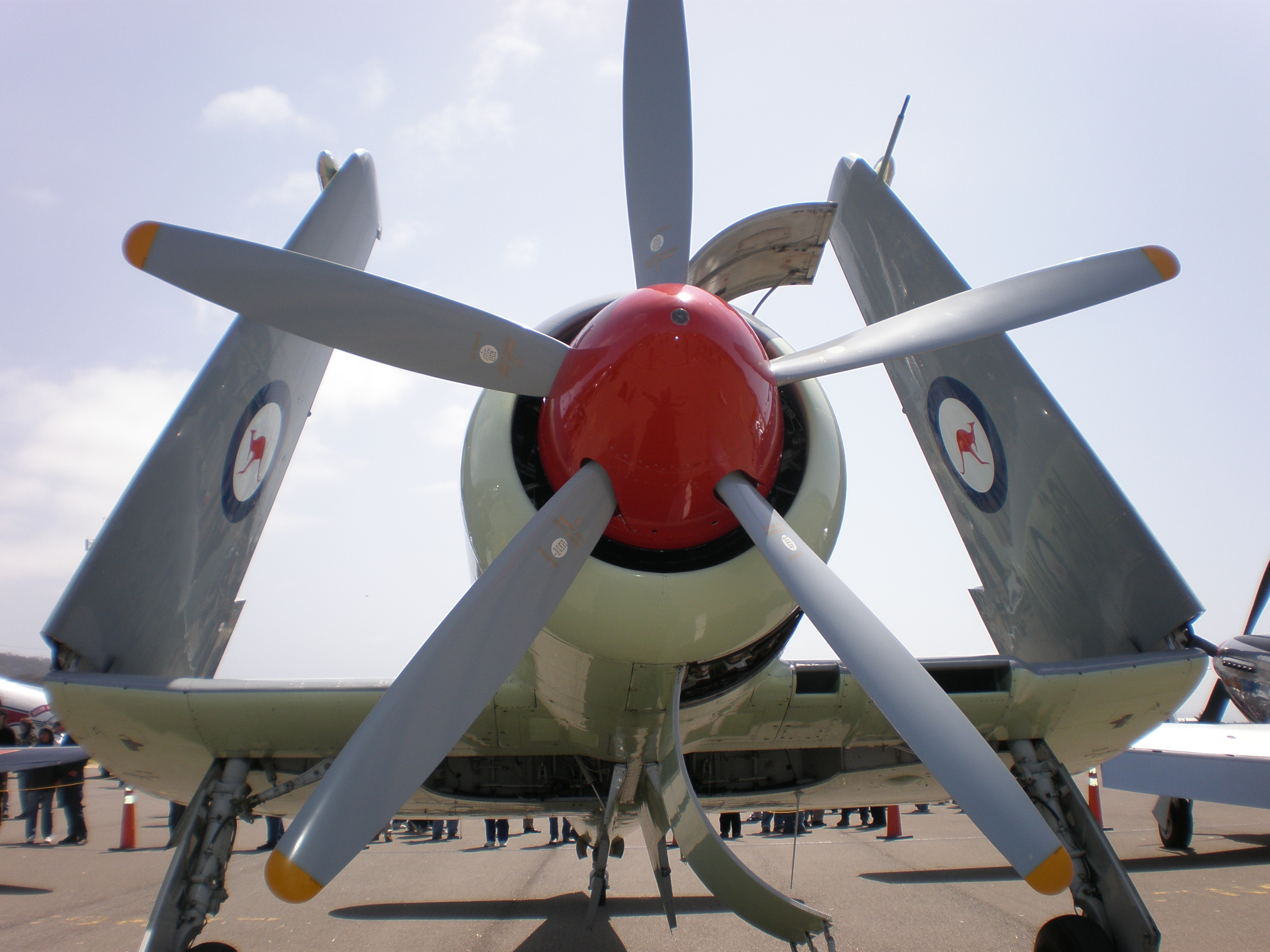 A Hawker Sea Fury Mk. 11 at the Pacific Coast Dream Machines 2009 vehicle show at the Half Moon Bay Airport in Half Moon Bay, California.